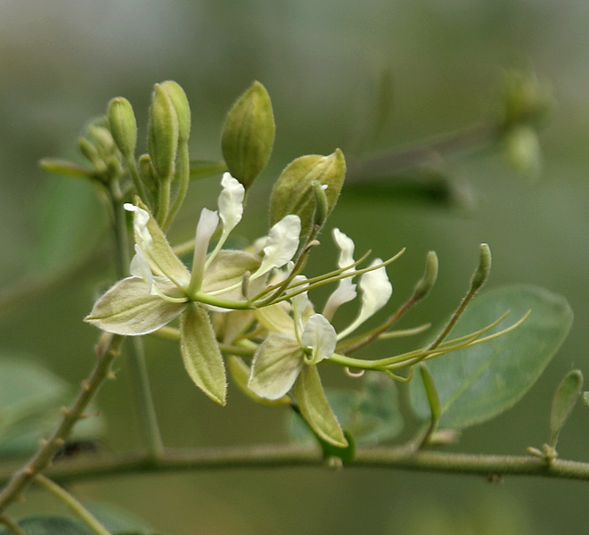 Indian Cadaba Cadaba fruticosa in Hyderabad , India.